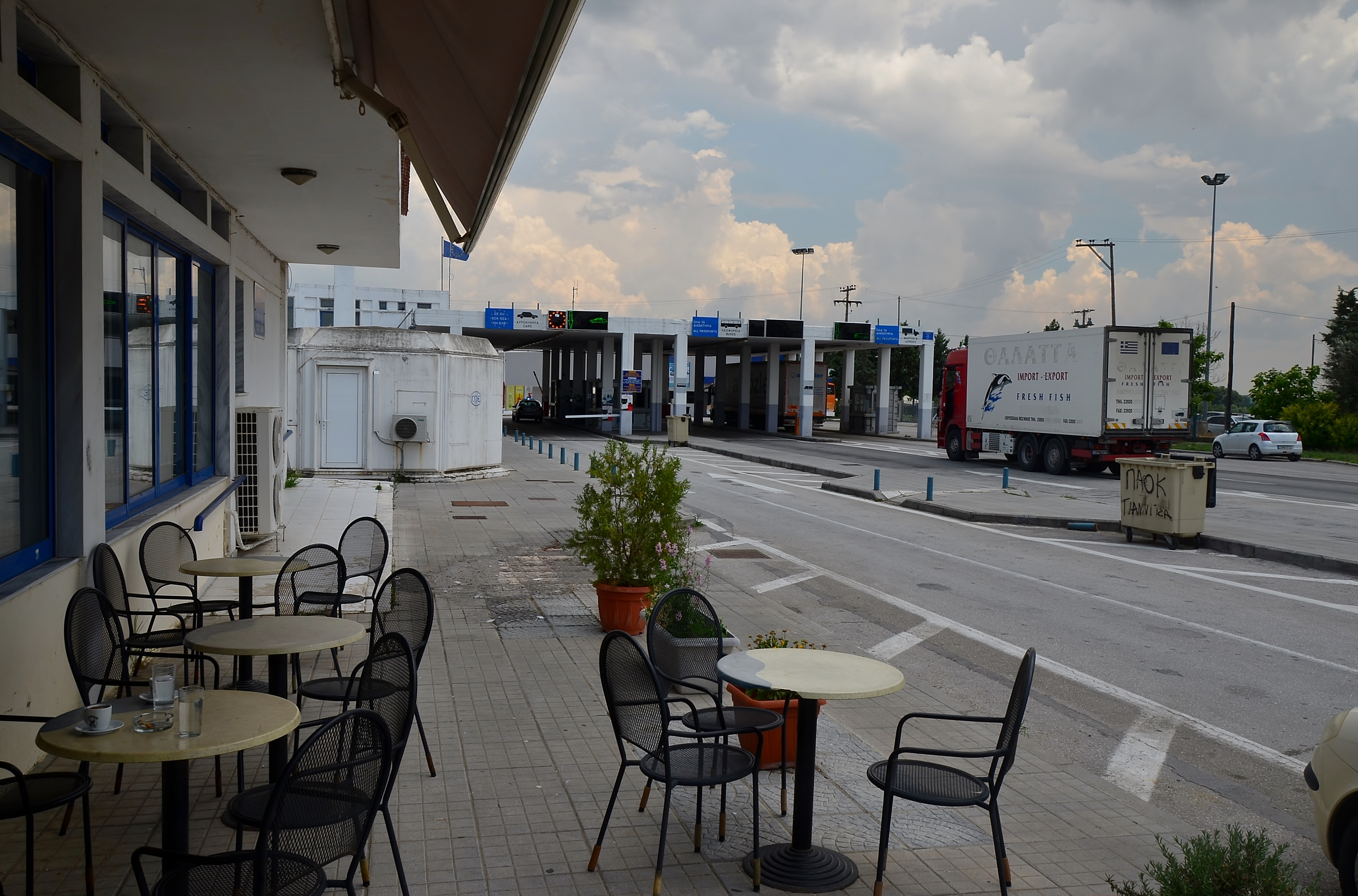 Street in Alexandroupoli